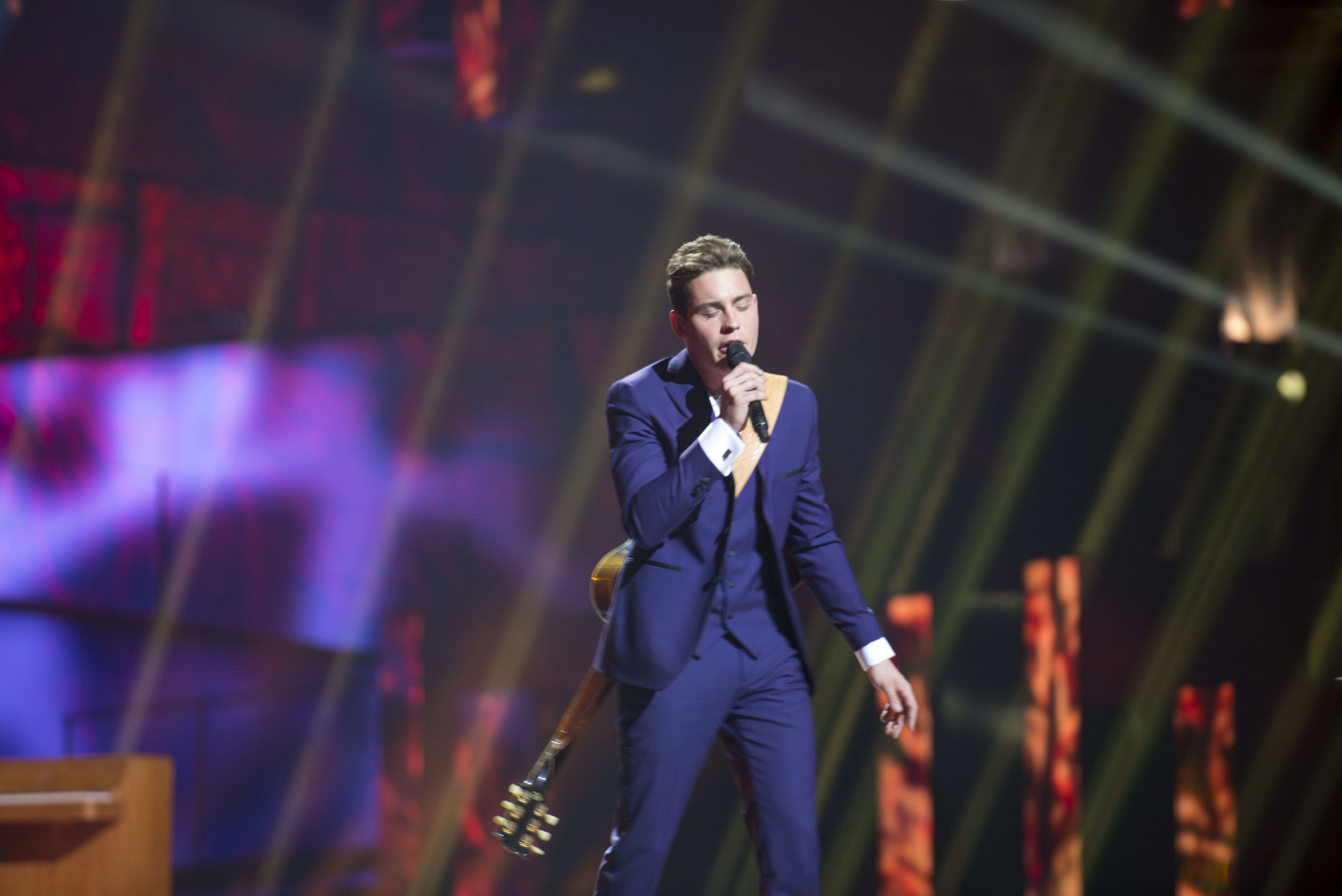 Douwe Bob representing Netherlands with the song "Slow Down" during a rehearsal before the first semi final of the Eurovision Song Contest 2016 in Stockholm. (Help translate this text)